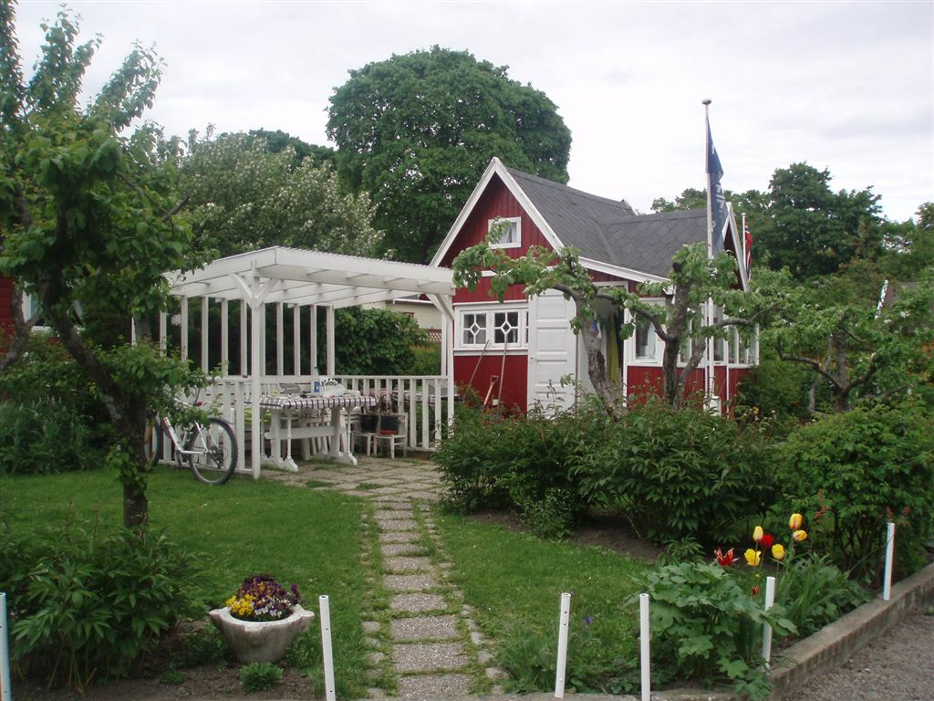 Portveien 2 is an old known childrens program in Norway, this is the house used as the exterior in the series. It is located in Sagene, Oslo, Norway.